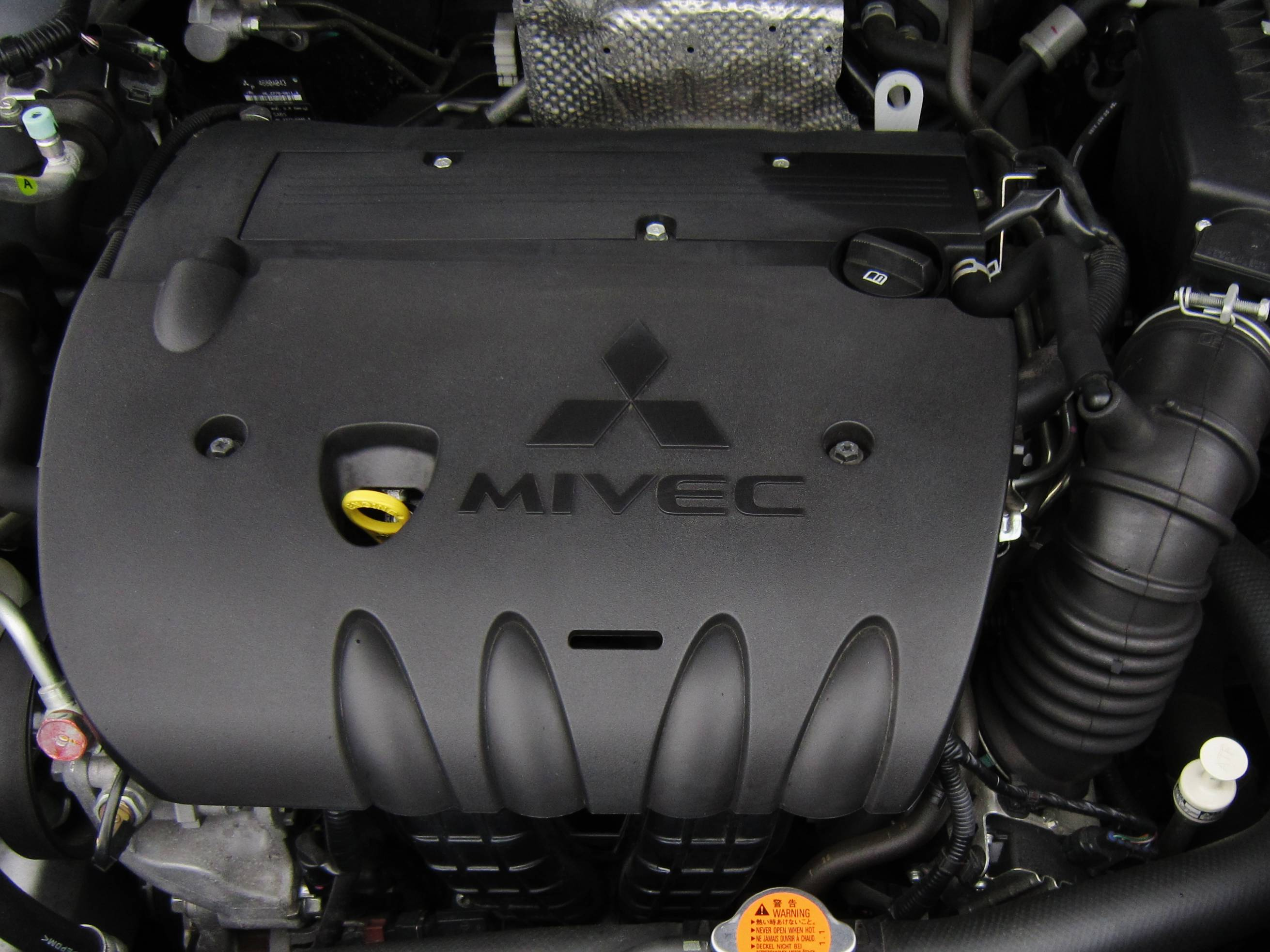 2007 Mitsubishi Galant Fortis 4B11 engine.